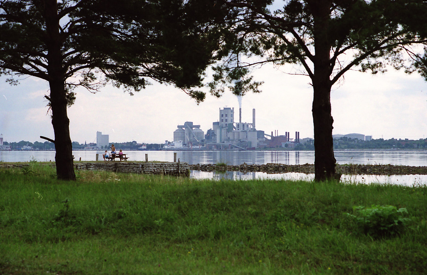 Cement industry at Slite